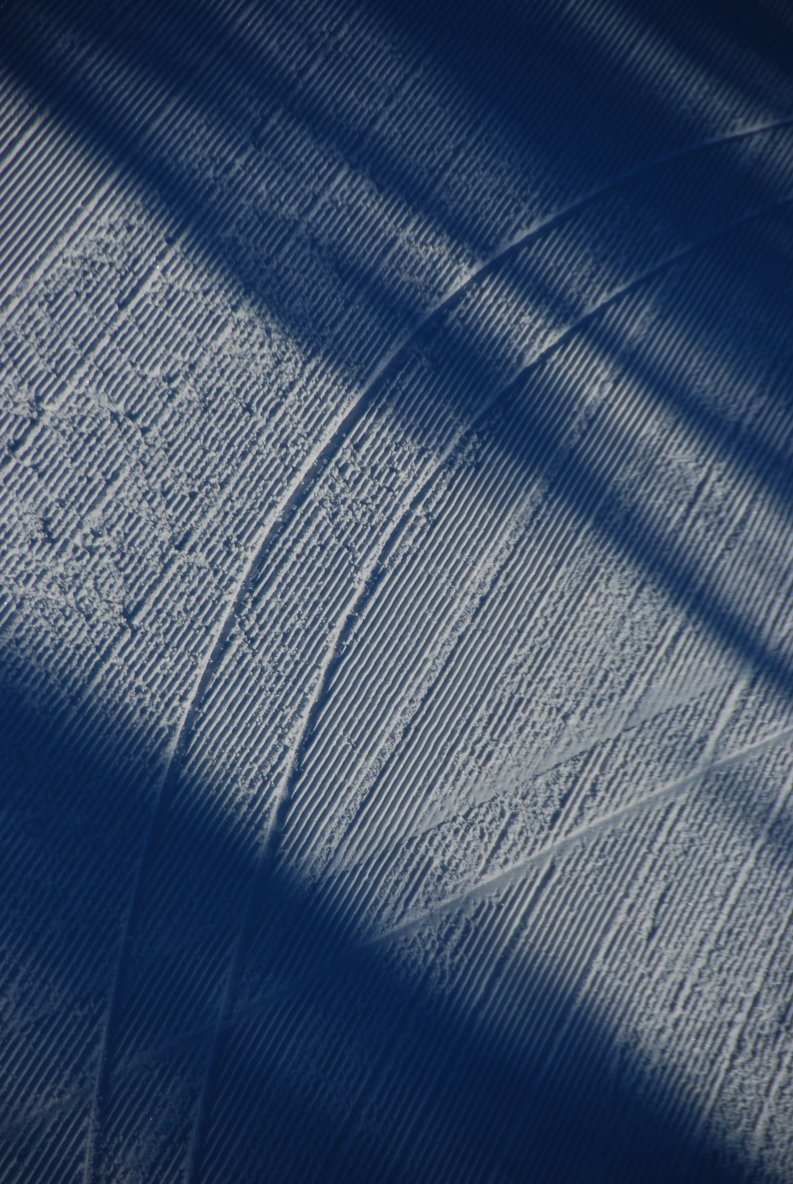 Skiing tracks in groomed snow